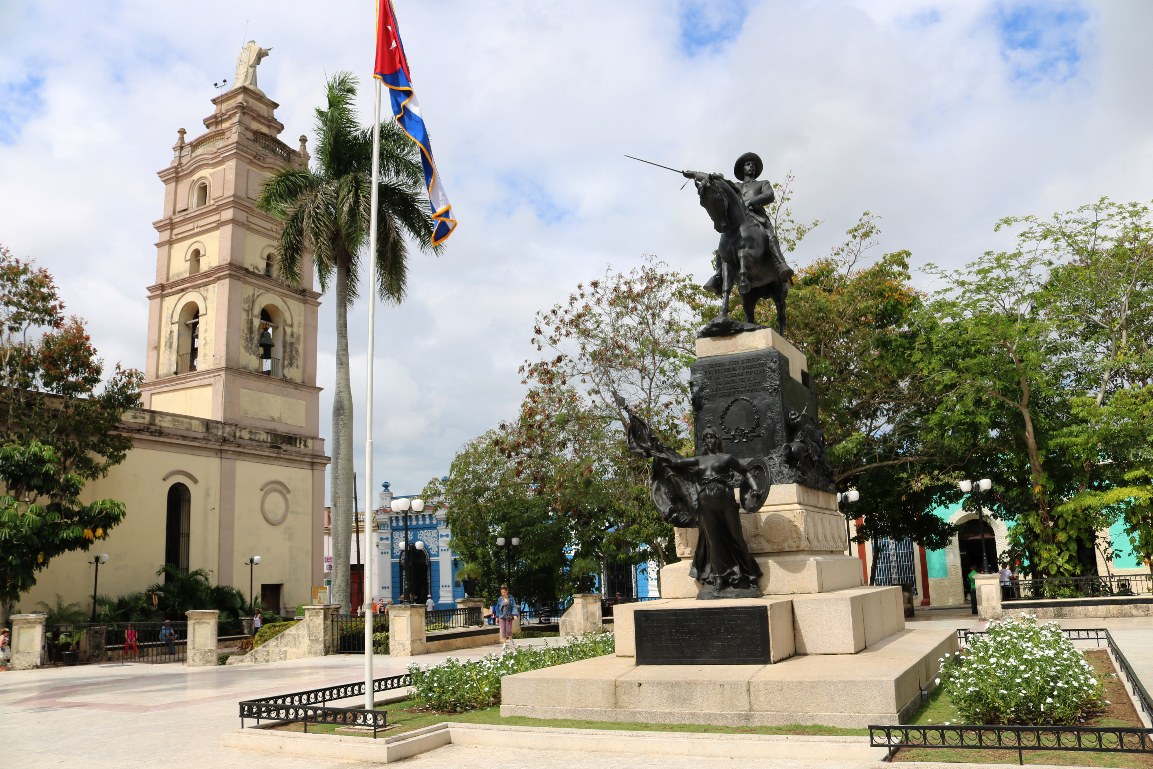 Church at the park Ignacio Agramonte, with monument of Ignacio Agramonte, in Camagüey, Cuba